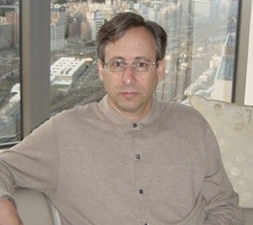 Actual Alan Myers